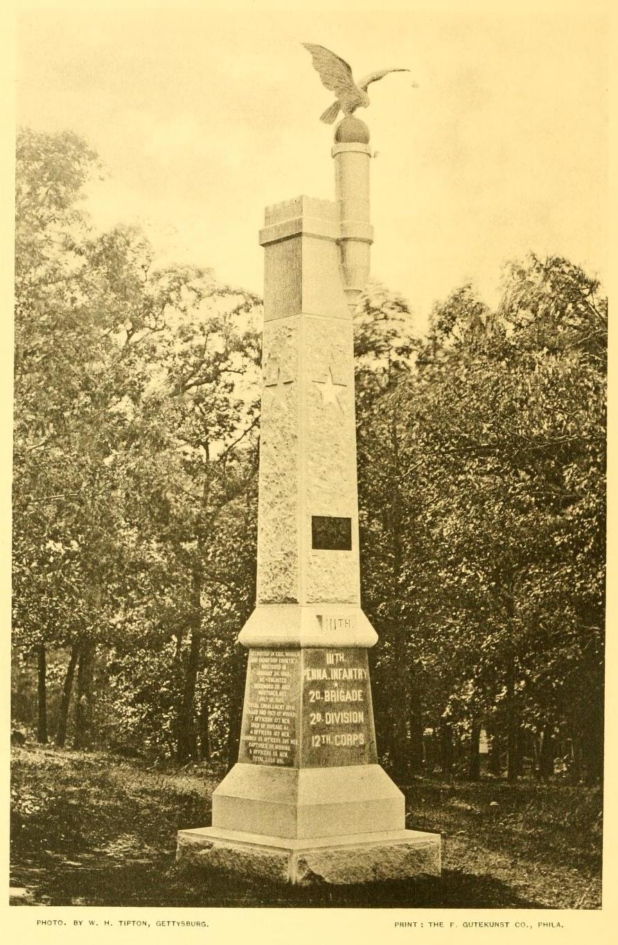 111th Pennsylvania Infantry Monument, Gettysburg Battlefield.